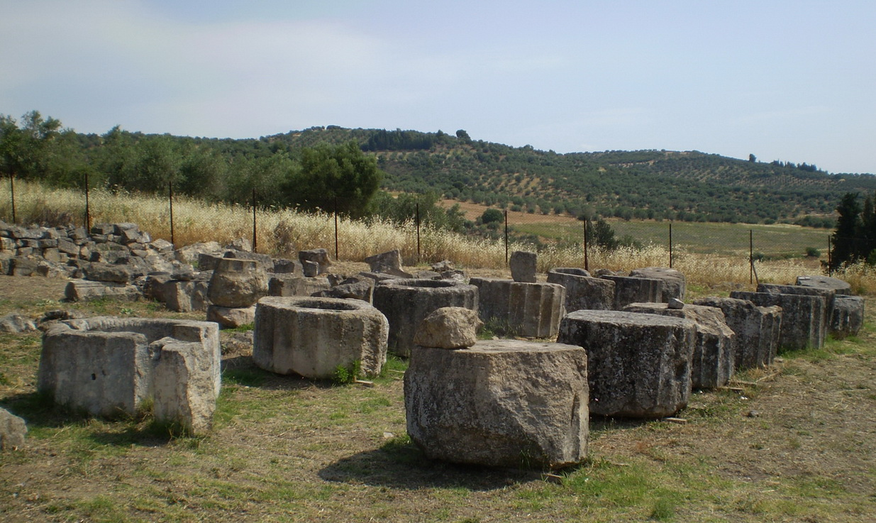 The archeologic site of Iampolis in modern Kalapodi Fthiotis, central Greece